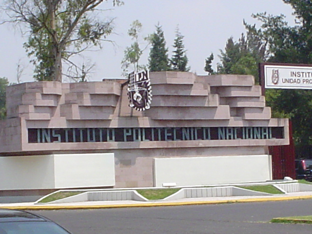 Entrance to the Professional Unit "Adolfo López Mateos" of the Instituto Politécnico Nacional, at Mexico City, México. This gate allows the entrance since Juan de Dios Bátiz Paredes street.